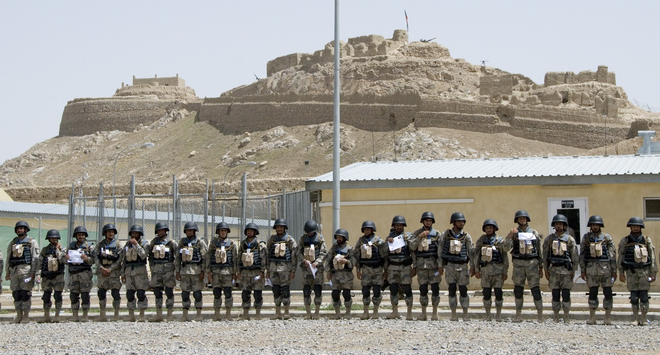 SPIN BULDAK, Afghanistan--Afghan Border Police (ABP) Officers gather in formation after receiving their certificates of completion for the Focused Border Development Training Program during a ceremony held outside the ABP Border Center at Spin Buldak on April 2, 2009. Two-hundred new Border Police Officers graduated from the seven-week training program. This is the first group from the 3rd Zone to receive the training which taught fundamentals in entry-control points, road blocks, and other areas such as vehicle maintenance and infantry patrol. ISAF photo by U.S. Navy Petty Officer 2nd Class Aramis X. Ramirez (RELEASED)